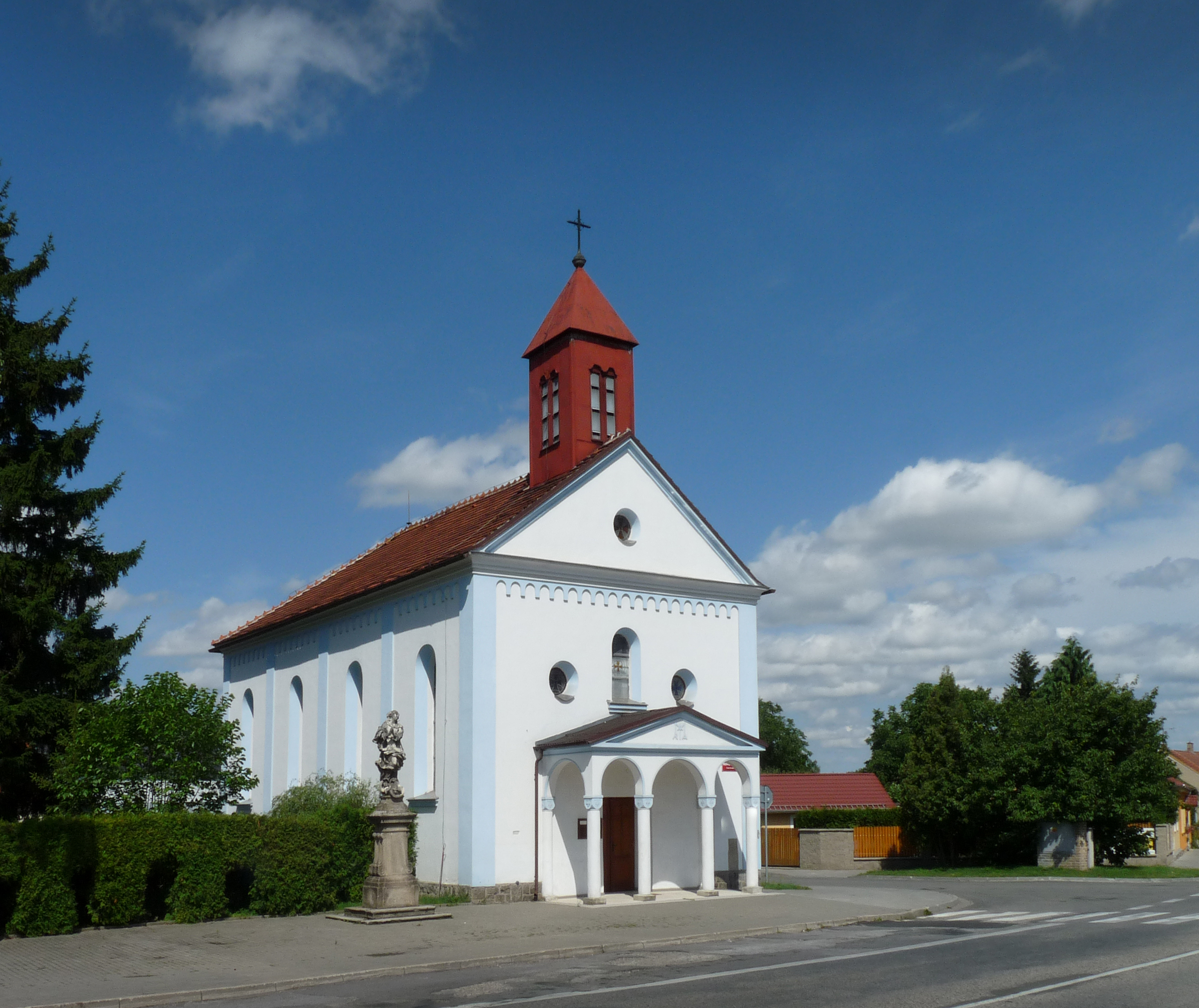 Virgin Mary Queen of Angels Church from 1938 in the village of Nové Hodějovice, part of České Budějovice, Czech Republic.